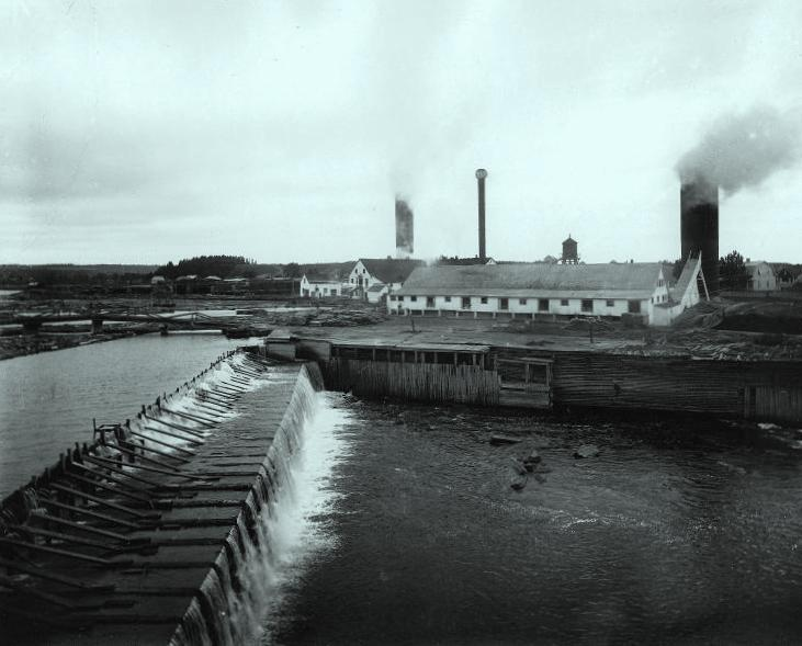 Photograph, Lumber mill, Price Company, Matane, QC, about 1914, Wm. Notman & Son. Silver salts on glass - Gelatin dry plate process - 20 x 25 cm